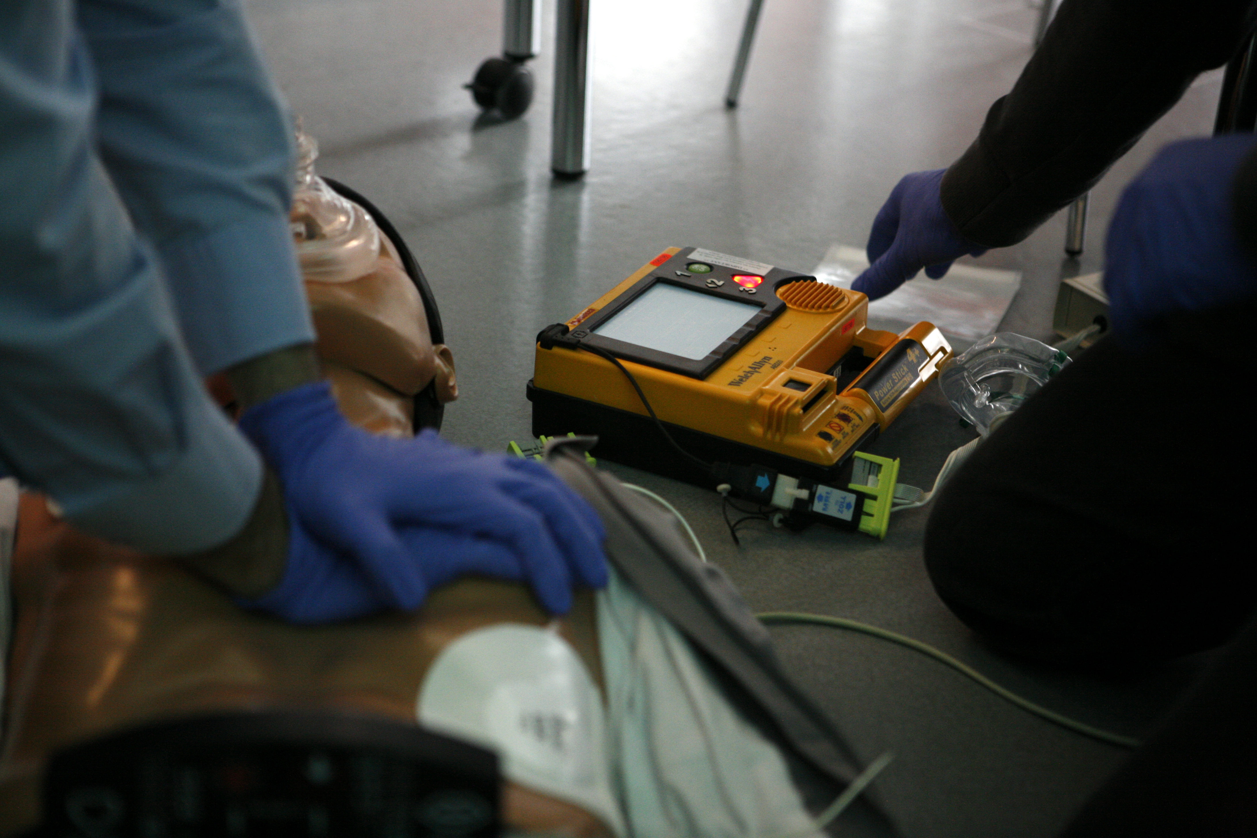 CPR training with Welch Allyn AED 20